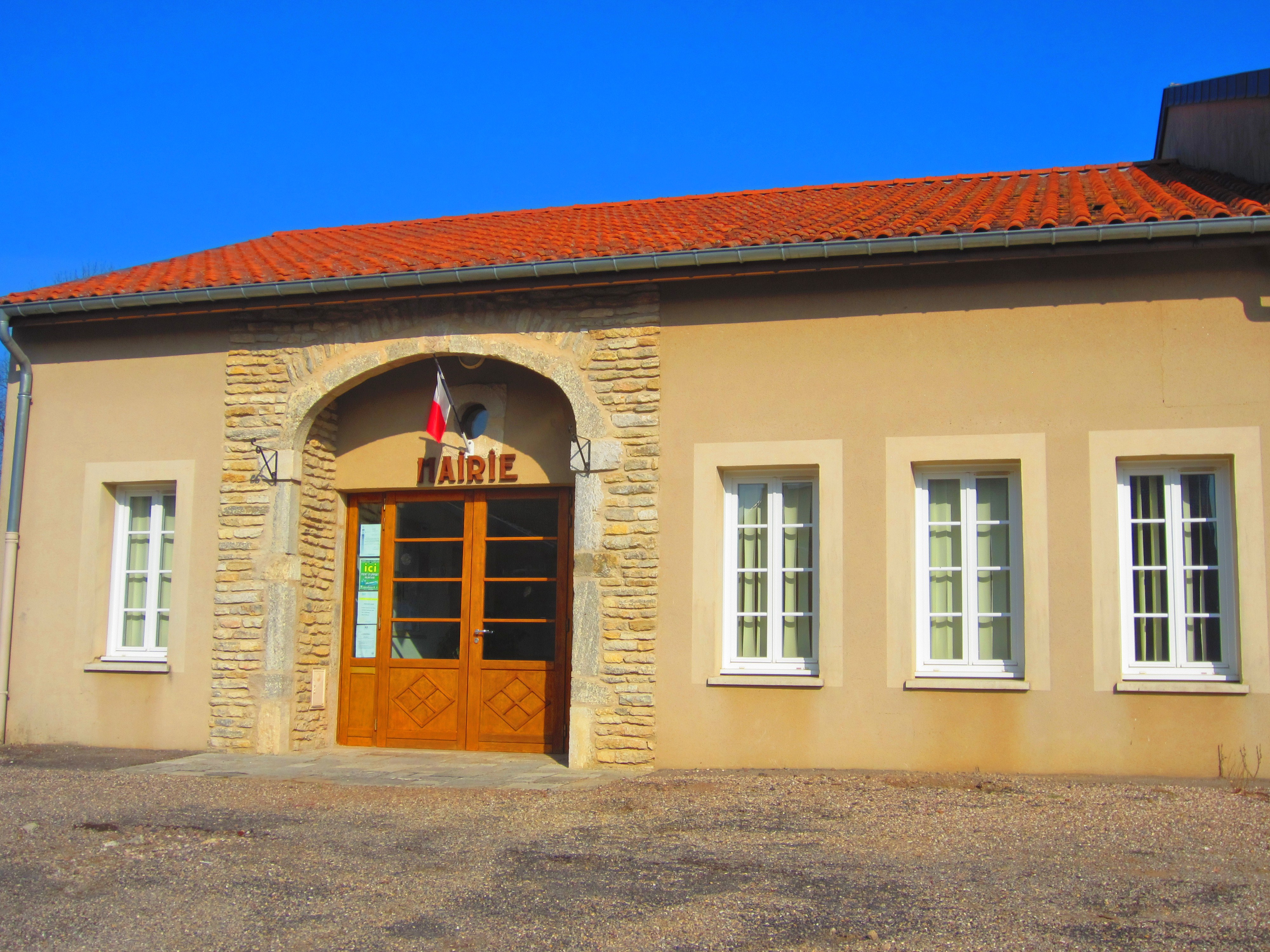 Servigny Raville town council